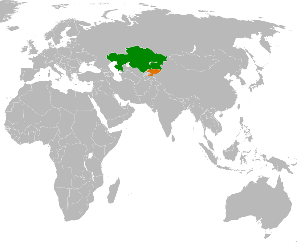 Locator map showing Kazakhstan and Kyrgyzstan